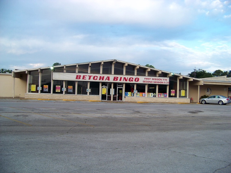 Betcha Bingo, a charitable bingo hall in Irving, Texas